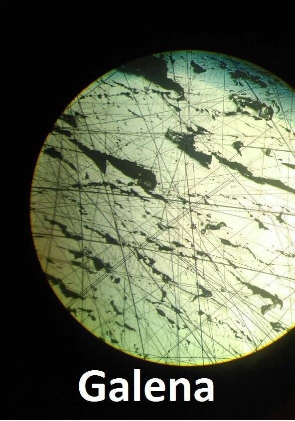 Microscopic image of Galena